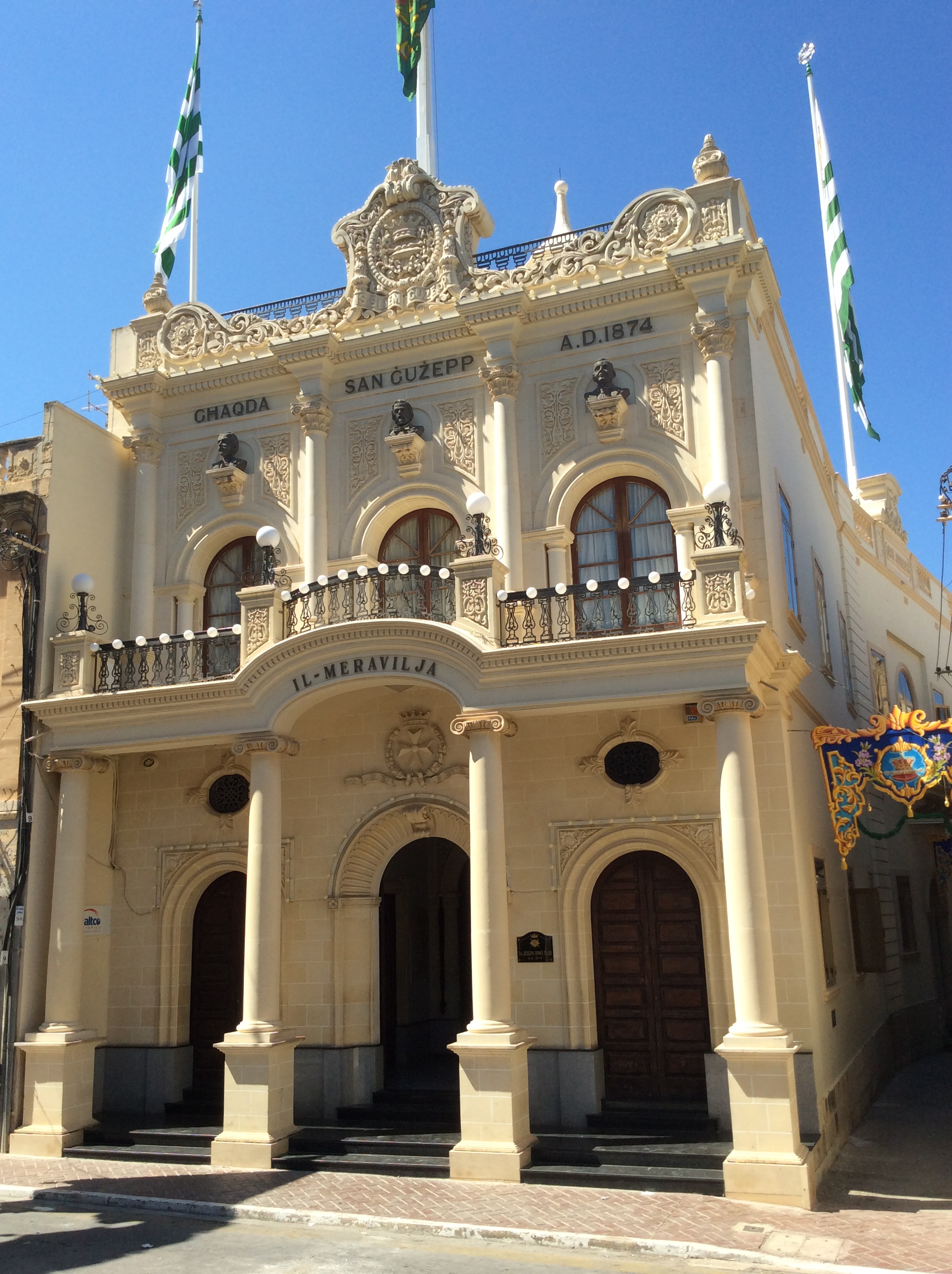 Il-Meravilja band club